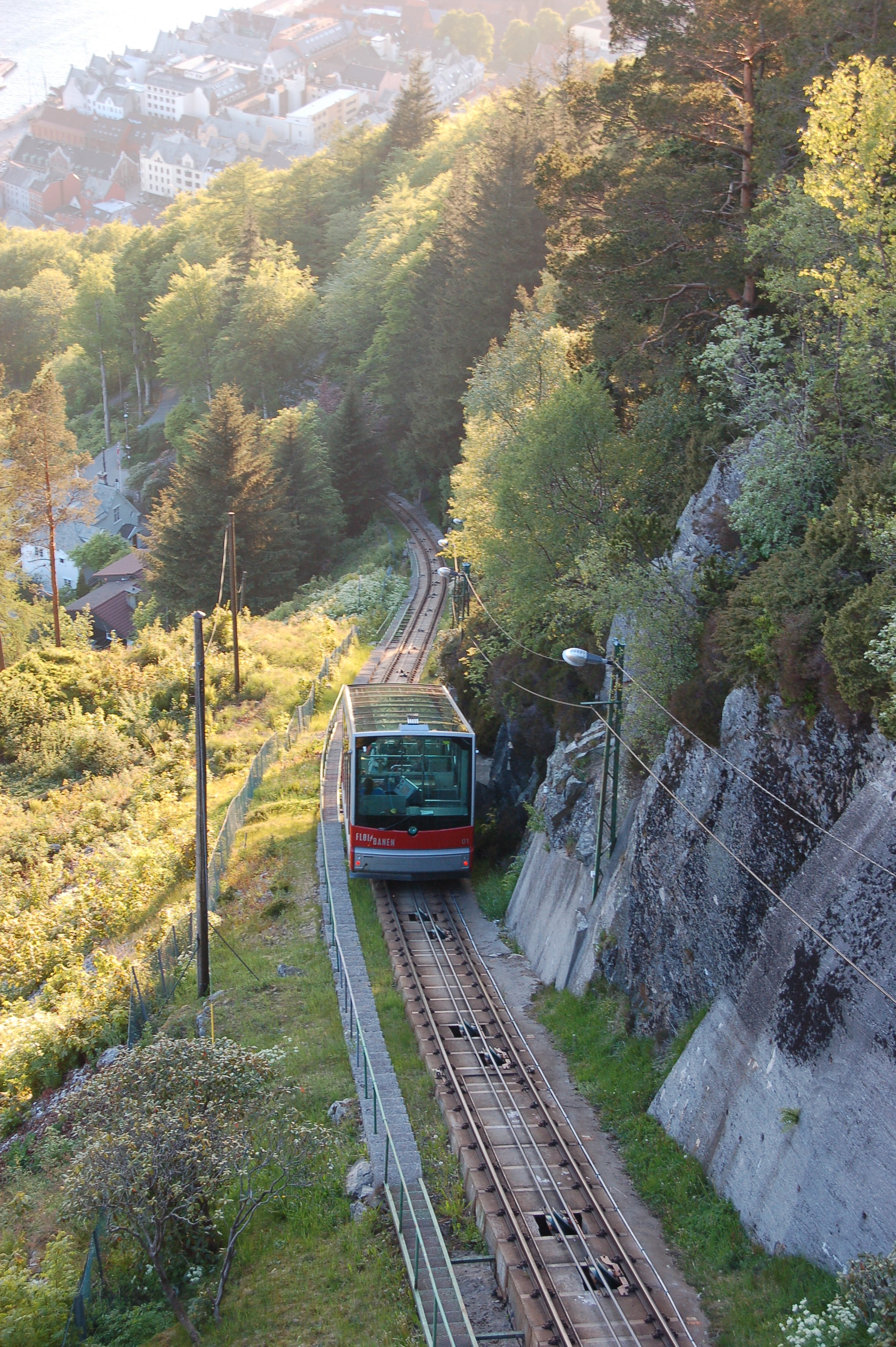 Fløibanen funicular of Bergen, Norway seen from Fløyen